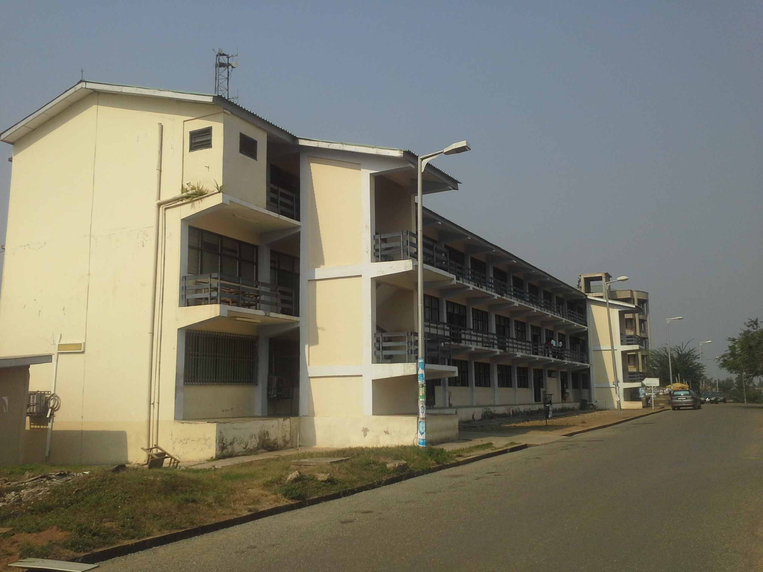 This is the formal administration block of k.poly, but now it serve as school clinic,classrooms and the thinclient computer lab.